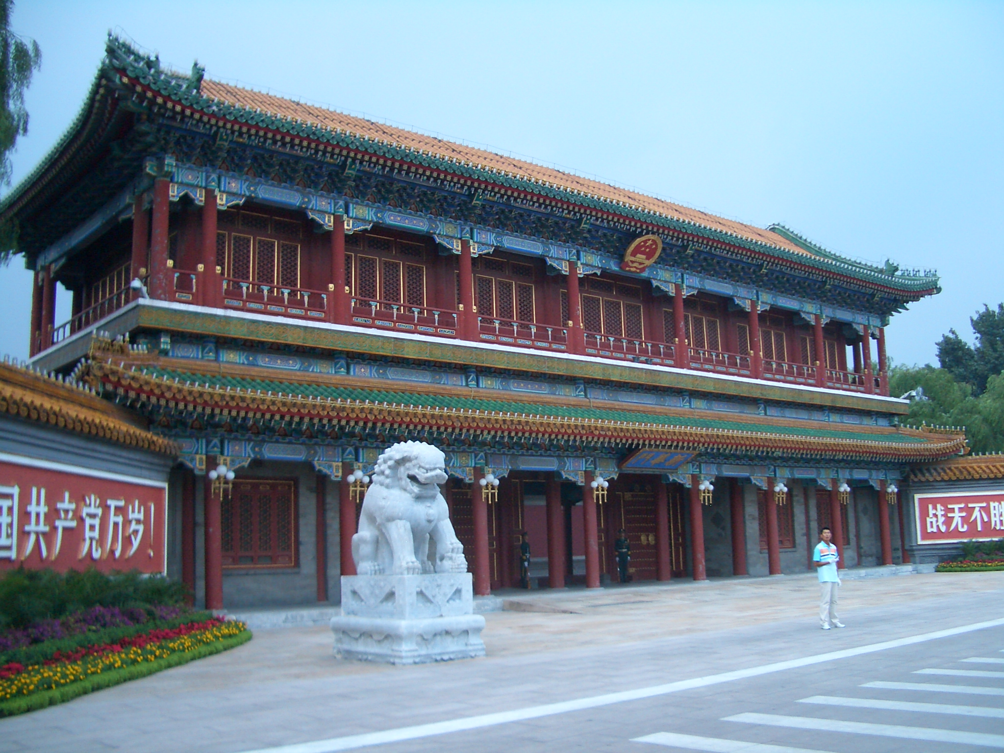 The south gates of Zhongnanhai